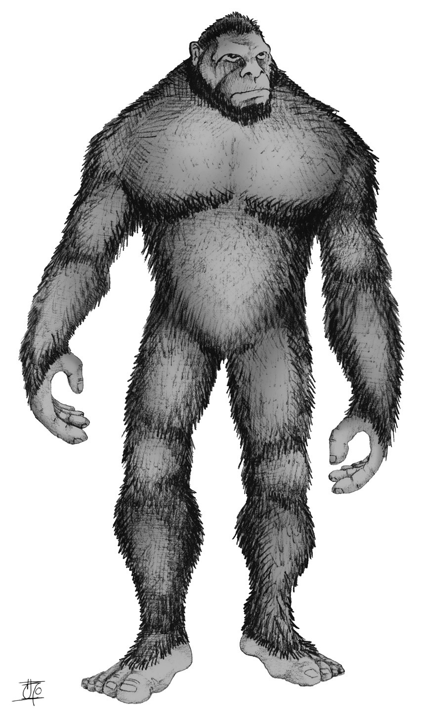 Artistic depiction of Bigfoot. Drawing made by user LeCire for its use on Wikipedia, pencil technique with digital enhancement.